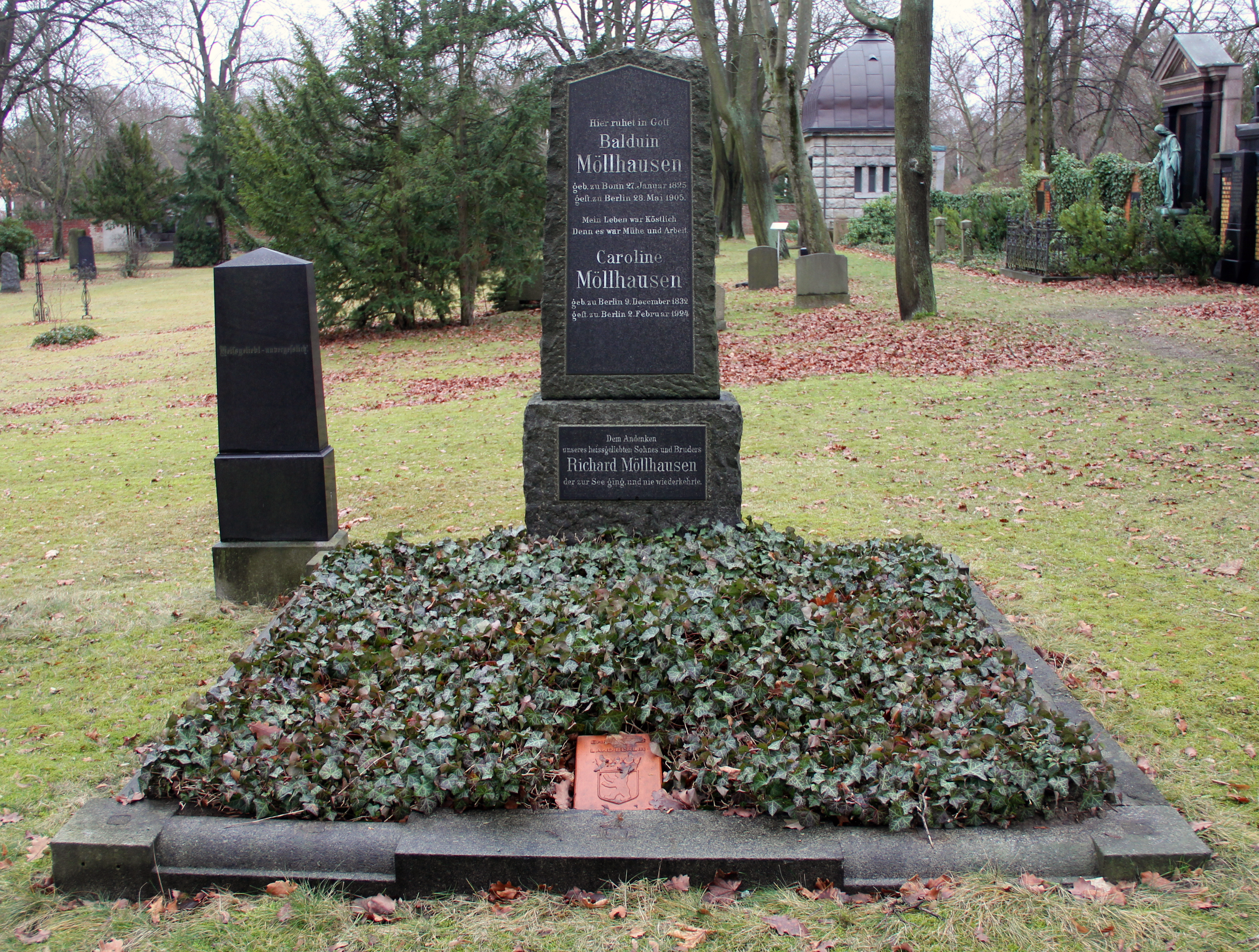 Grave of honor, Balduin Möllhausen, Columbiadamm 122, Berlin-Neukölln, Germany